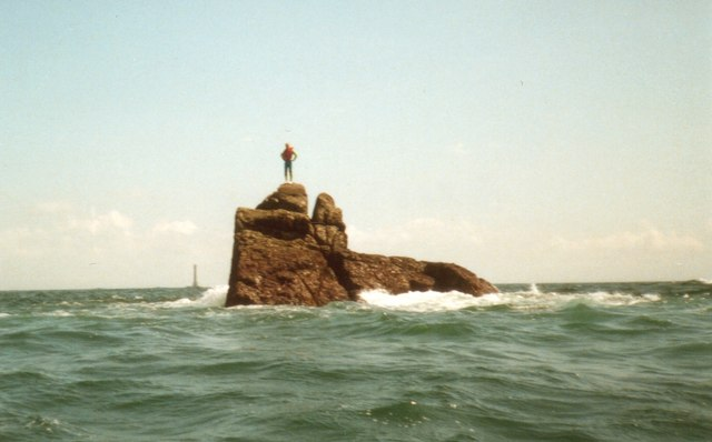 Peaked Rock - Isles of Scilly Peaked Rock is the most westerly bit of land in England.